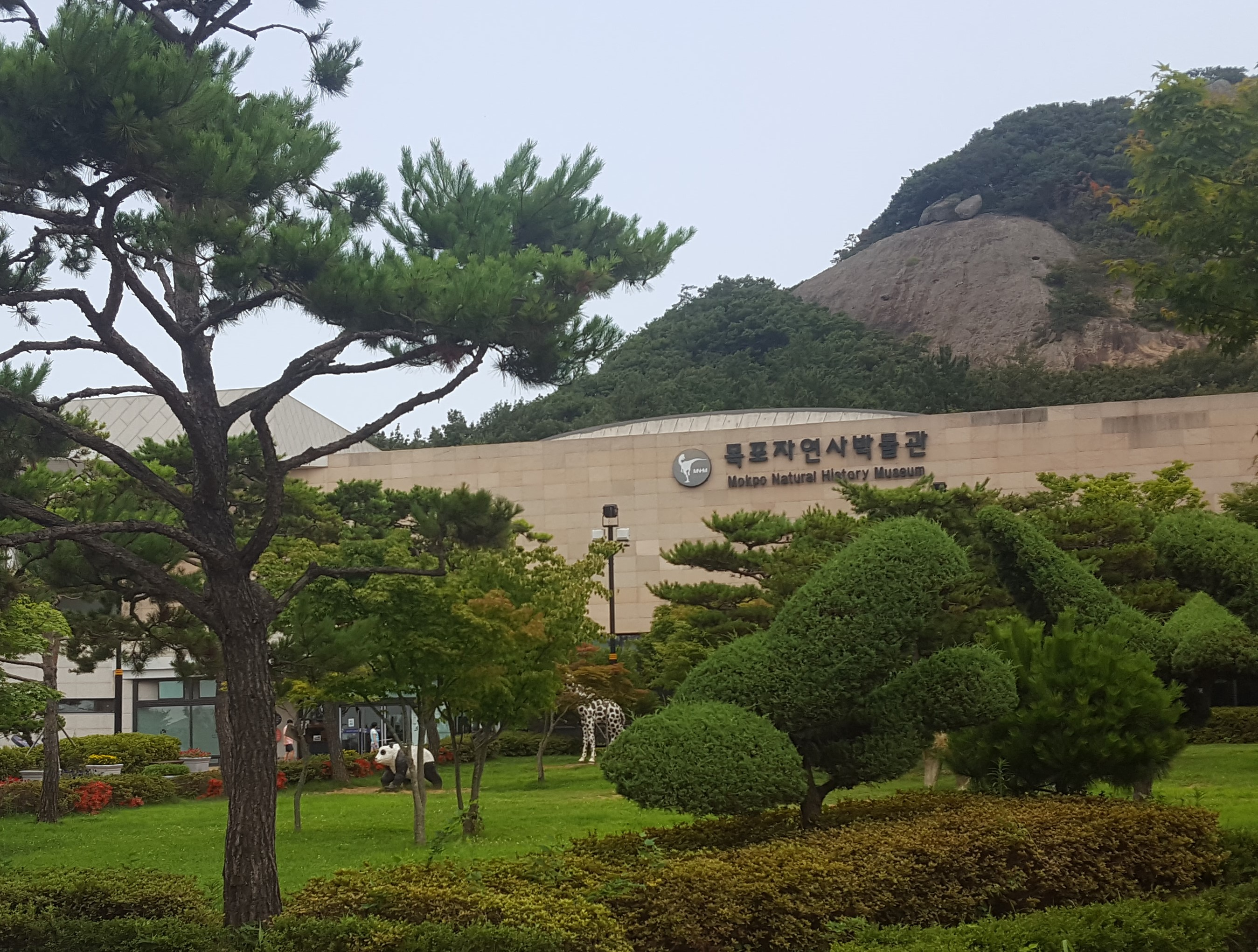 Mokpo Natural History Museum building